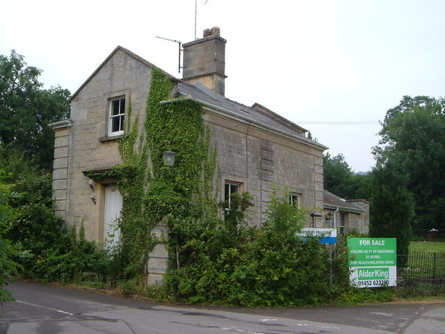 Standish Lodge. This was the lodge to the former Standish House which became a hospital and is now, as the notice says, for sale. Smart rusticated quoins. Taken from Horsemarling Lane.